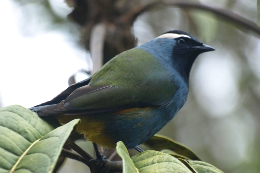 Crested Berrypecker Paramythia montium montium. Enga, Papua new Guinea